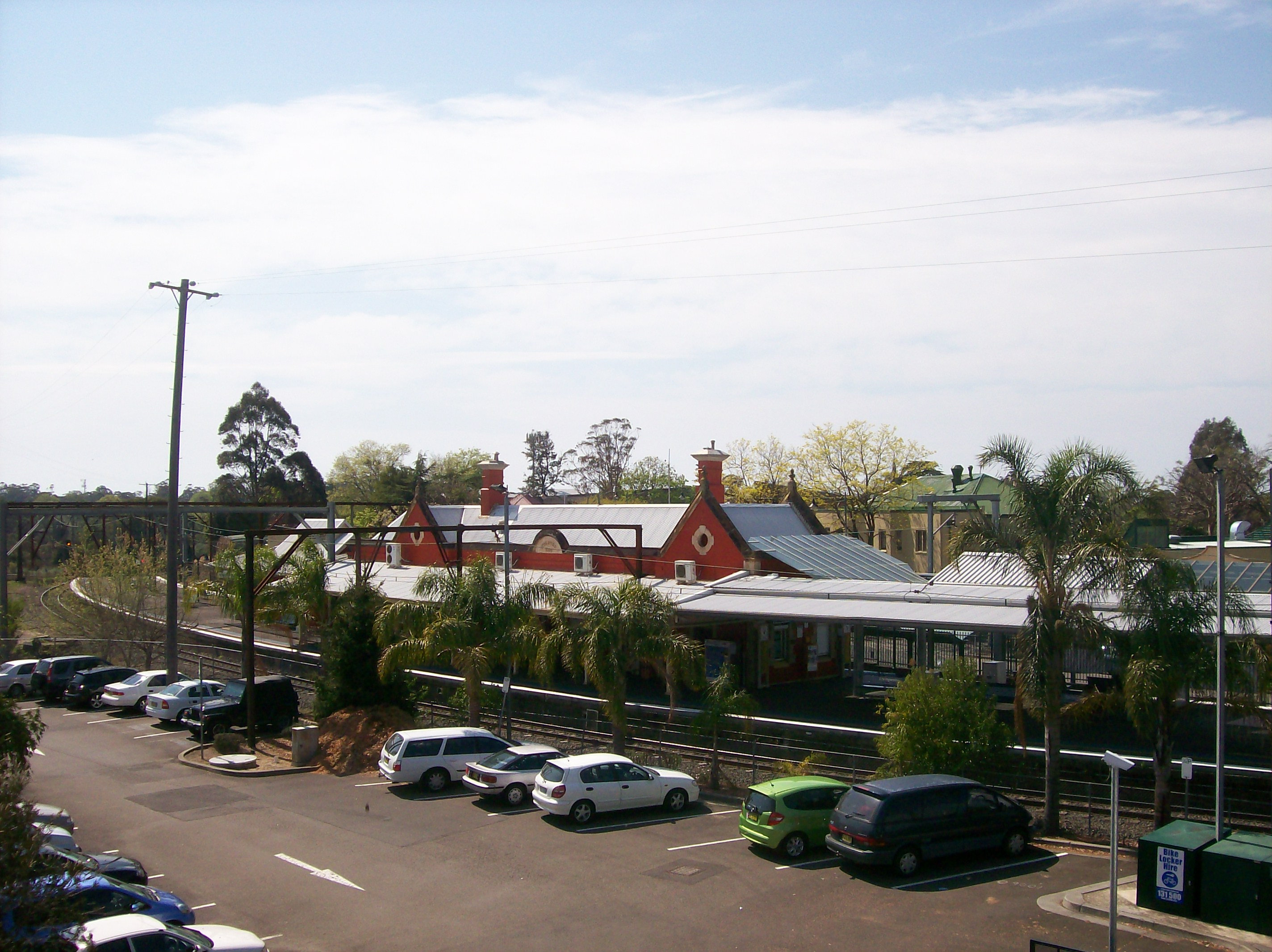 Springwood railway station